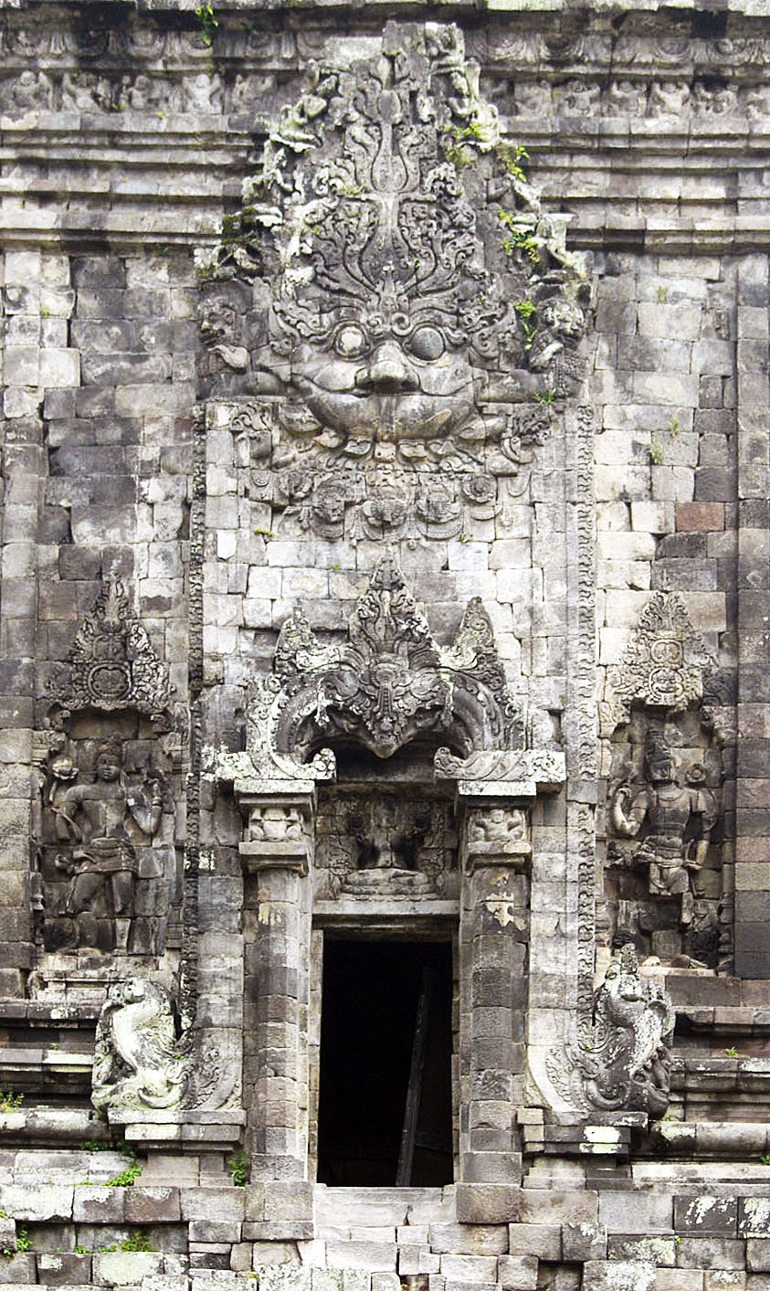 A giant Kala head on top of the door while the Makara projected on the side of the portal on south wall of Kalasan buddhist temple, display the aesthetics of ancient Java art. Kala-Makara is typical style of Hindu-Buddhist temple portals in Central Java circa 8th to 9th century.